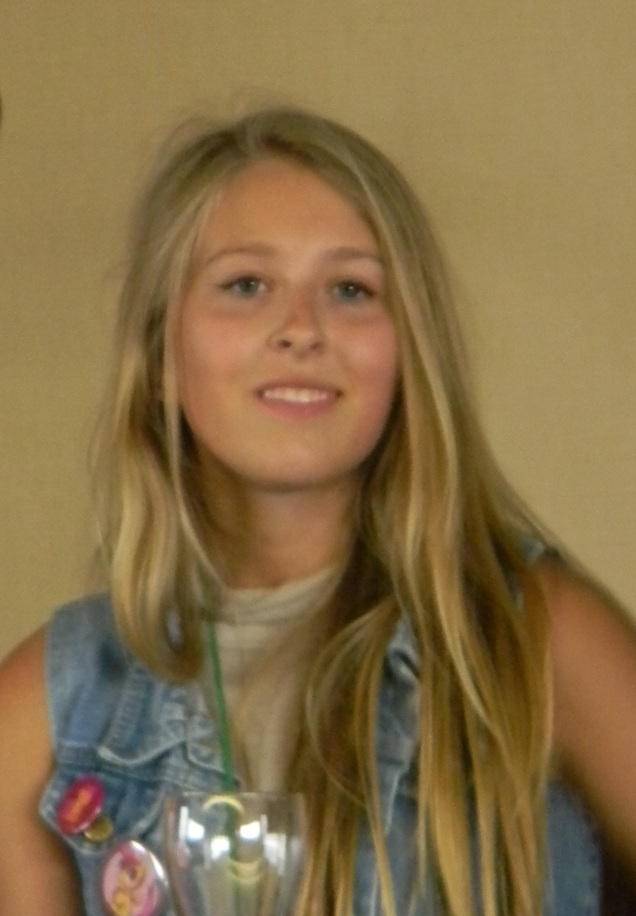 Voice actress Madeleine Peters at Everfree Northwest 2012